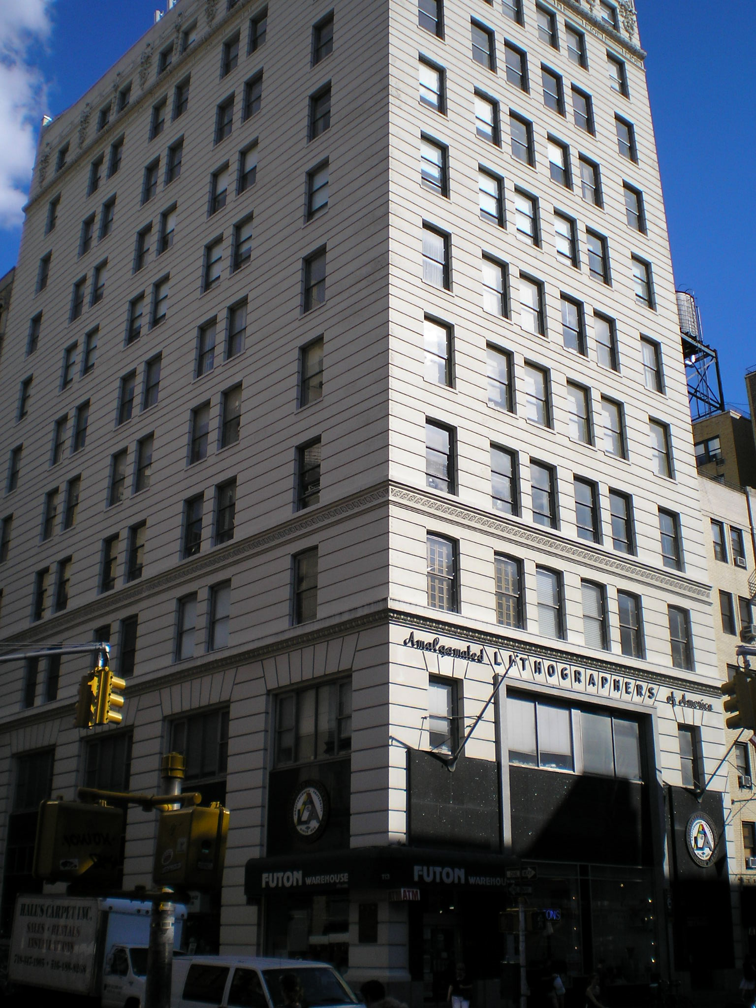 The author of this photo is me, David Shankbone. 8 August 2006. The Amalgamated Lithographers of America Building, at 113-115 University Place at West 13th Street, off Union Square in Manhattan, New York City.